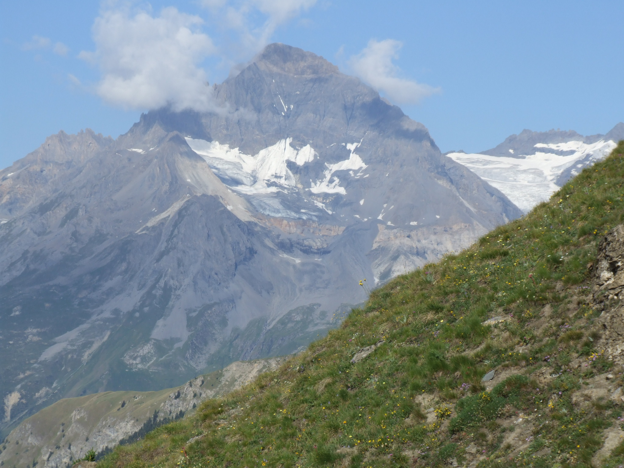 This picture shows Dent Parrachée, a mountain in Vanoise (Alps - France).